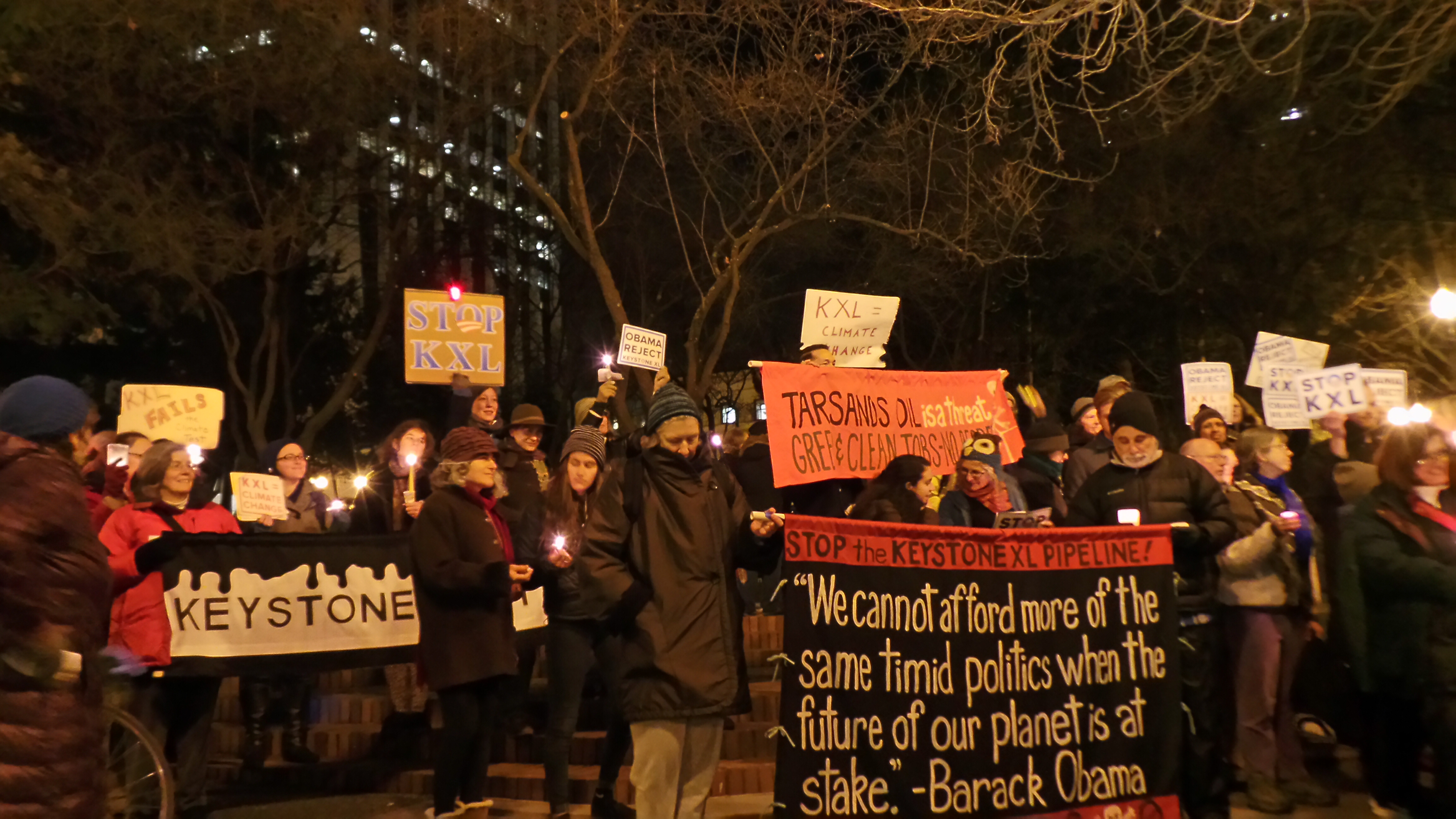 Concerned people hold a candle light vigil in a response opposing the Keystone XL Pipeline. They urge President Barack Obama to prevent the Keystone XL pipline from being developed. There is general concern among protesters that the pipeline contributes to harmful practices such as tar sands oil extraction that are injecting unprecedented amounts of carbon dioxide (CO2) into our atmosphere. The rate of carbon dioxide emissions and the amount in our atmosphere are far in excess of any known range of natural variation.